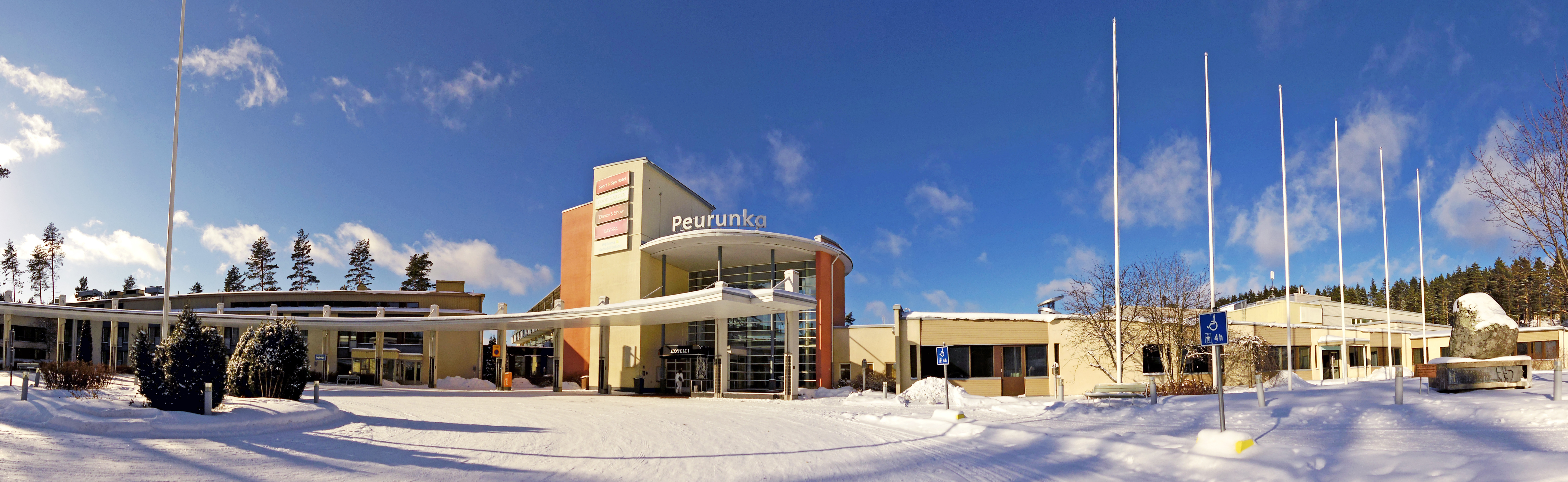 Hotel and Spa Peurunka in Laukaa, Finland.